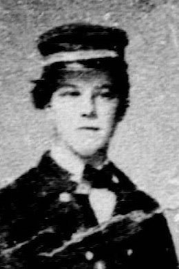 James Henry Carpenter about 1861 or 1862, cropped image of original